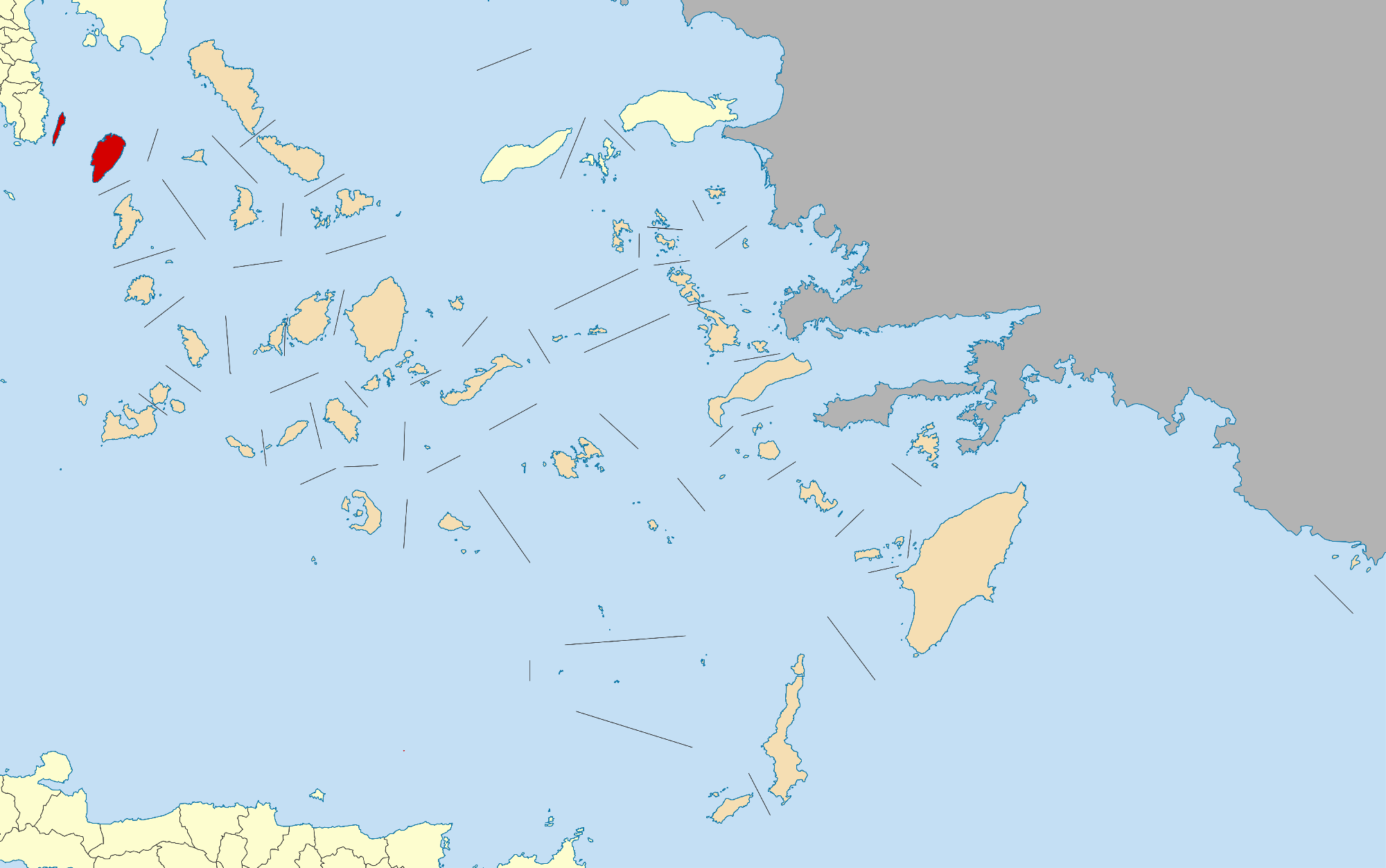 Locator map for Kea municipality in Greek region South Aegean (2011)